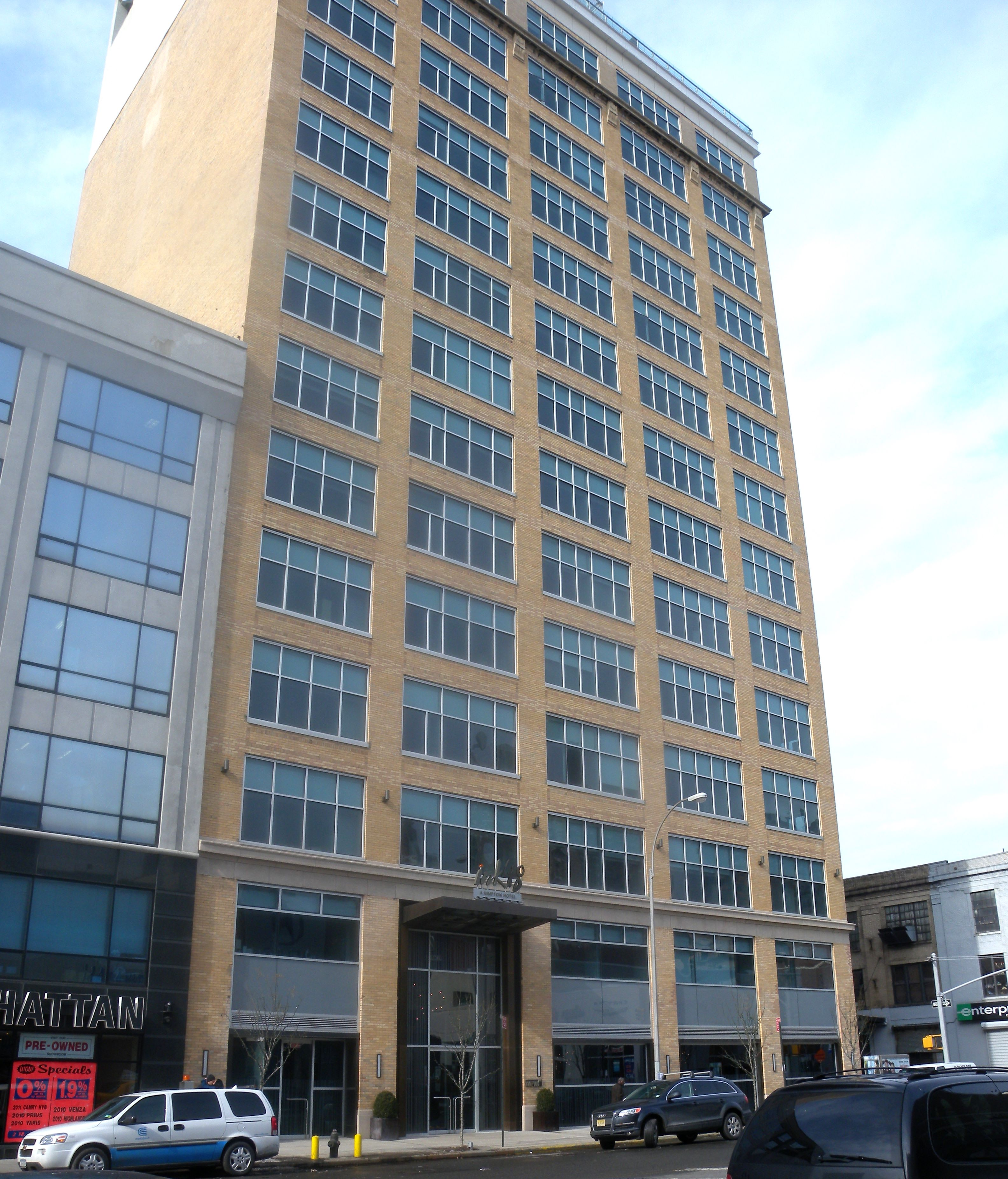 Looking north across 11th Avenue at Kimpton Hotel, 659 11th Avenue, on a sunny midday.